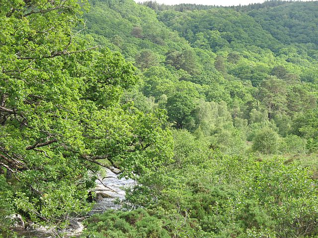 Oak woods, Airigh Fhionndail Reknowned temperate rainforest remnant. Thanks to the needs of the mining industry, the forests were looked after, and like Loch Etive and Loch Maree, oakwoods survive. Now they are being restored after the damage due to overgrazing and conifer plantations.